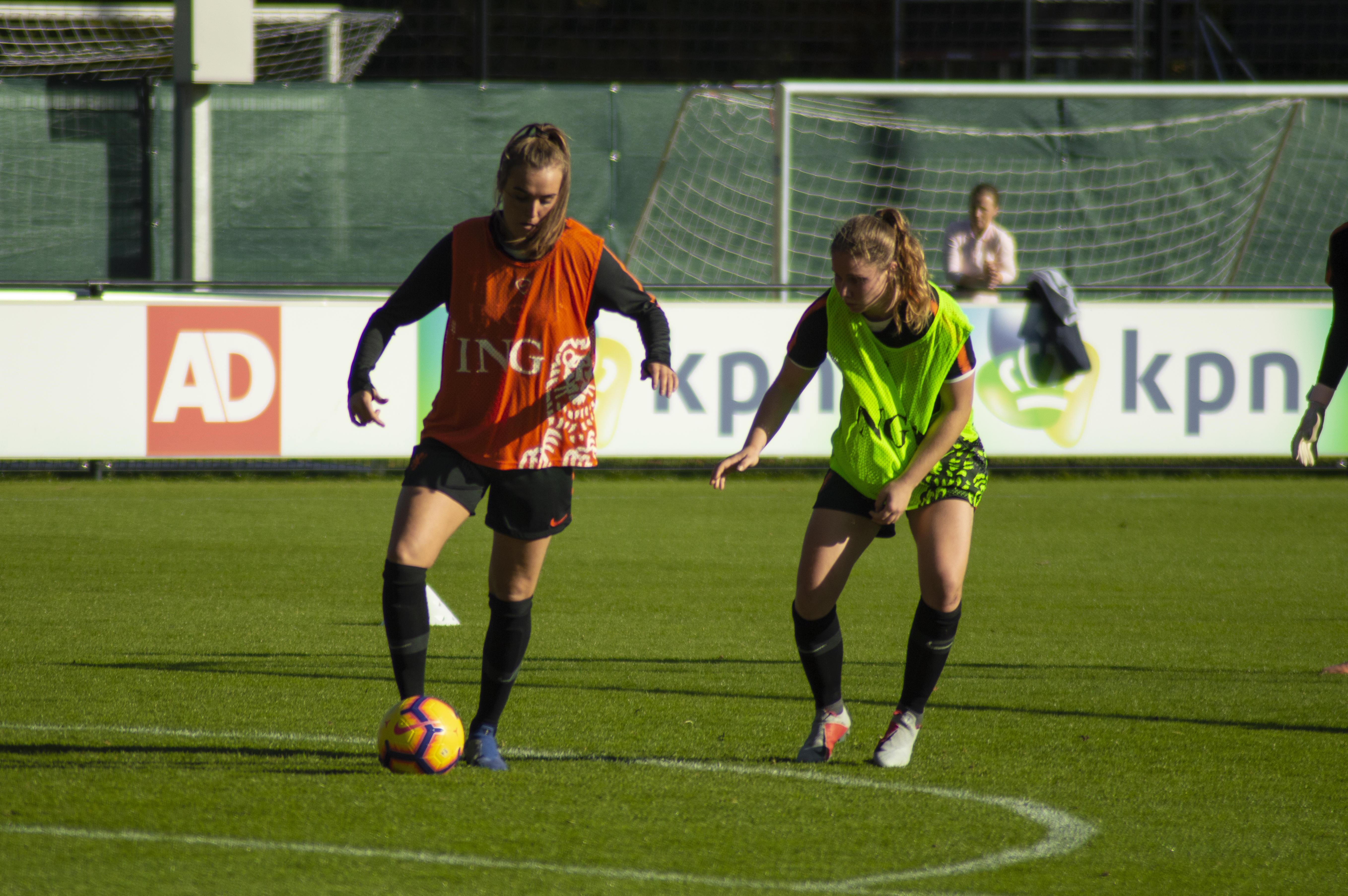 Jill Roord & Sisca Folkertsma training with the Netherlands women's national football team on November 6, 2018.